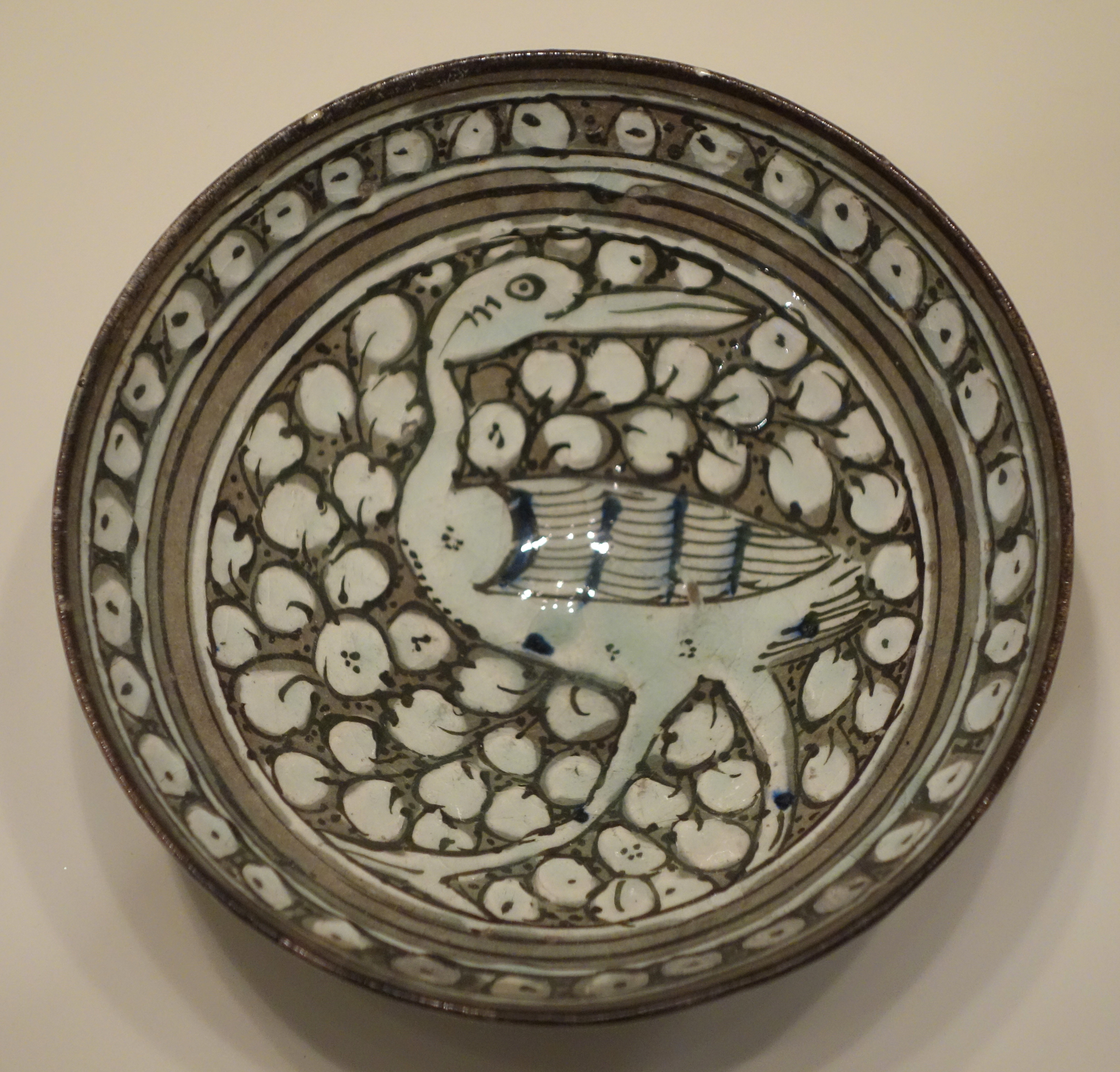 Exhibit in the Cincinnati Art Museum, Cincinnati, Ohio, USA. This artwork is in the public domain because the artist died more than 70 years ago.